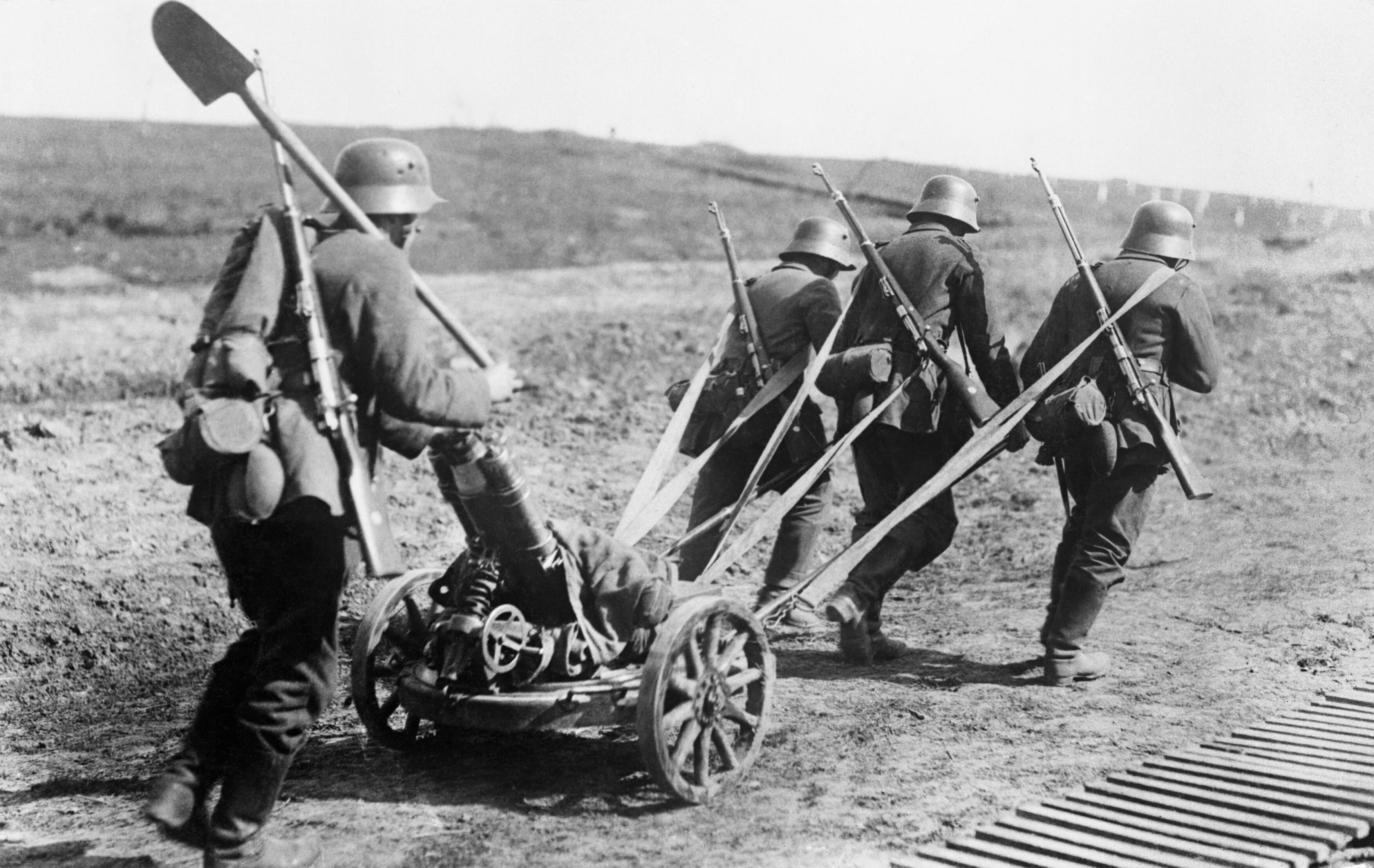 IWM caption : "THE GERMAN ARMY ON THE WESTERN FRONT 1914-1918. German infantrymen manhauling a 7.58cm light trench mortar (minenwerfer)".